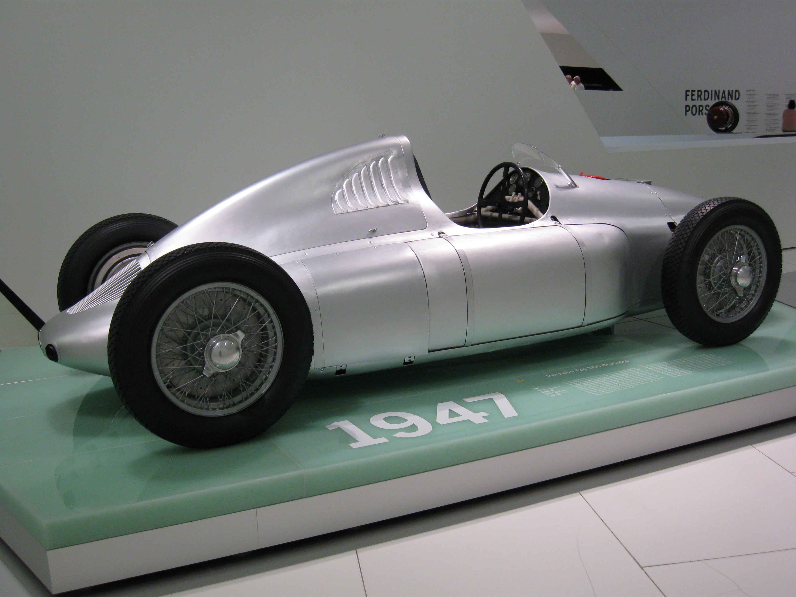 Cisitlia race car designed by Ferdinand Porsche. Picture taken in the new Porsche museum